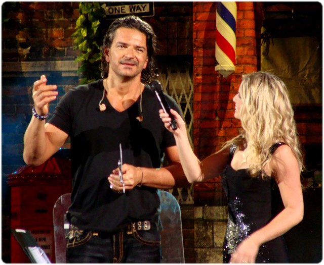 Ricardo Arjona receives award during Festival of Viña del Mar 2010